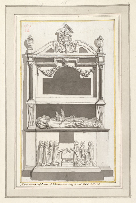 "Monument of John Ashburnham Esq. and his two wives," by the English artist S. H. Grimm. Ink wash on paper. The drawing in ink portrays courtier John Ashburnham Esquire (who died in 1671) and wives Frances Holland and Elizabeth Kenn. Courtesy of the British Library.